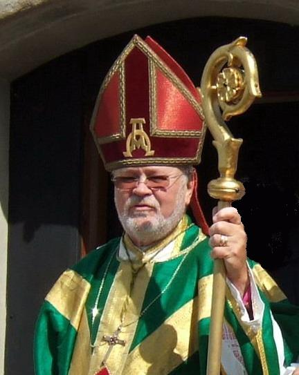 Bishop Sten-Bertil Jakobson of the Liberal Catholic Church in Sweden